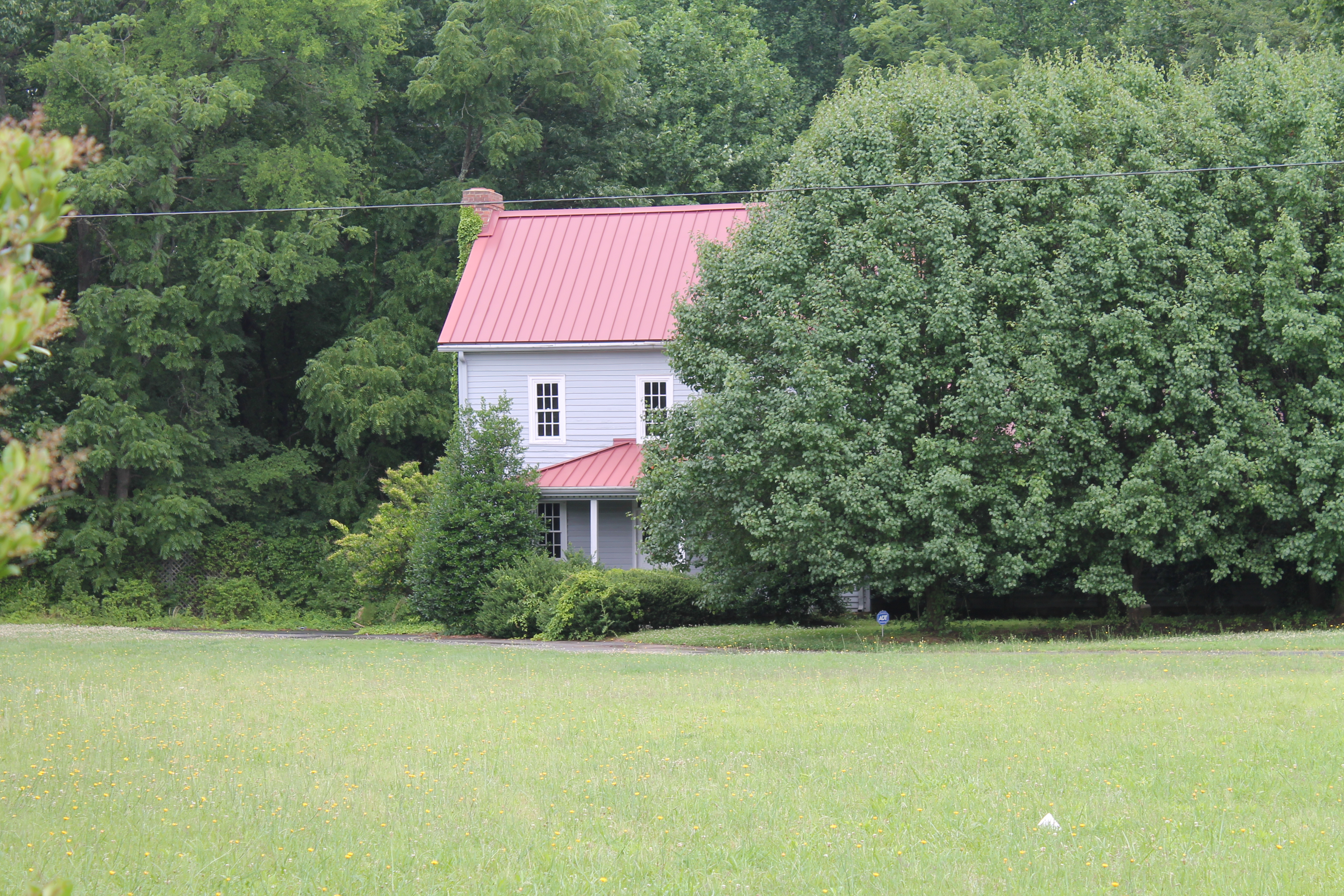 The George Houston House, a NRHP-listed property in Mount Mourne, North Carolina.